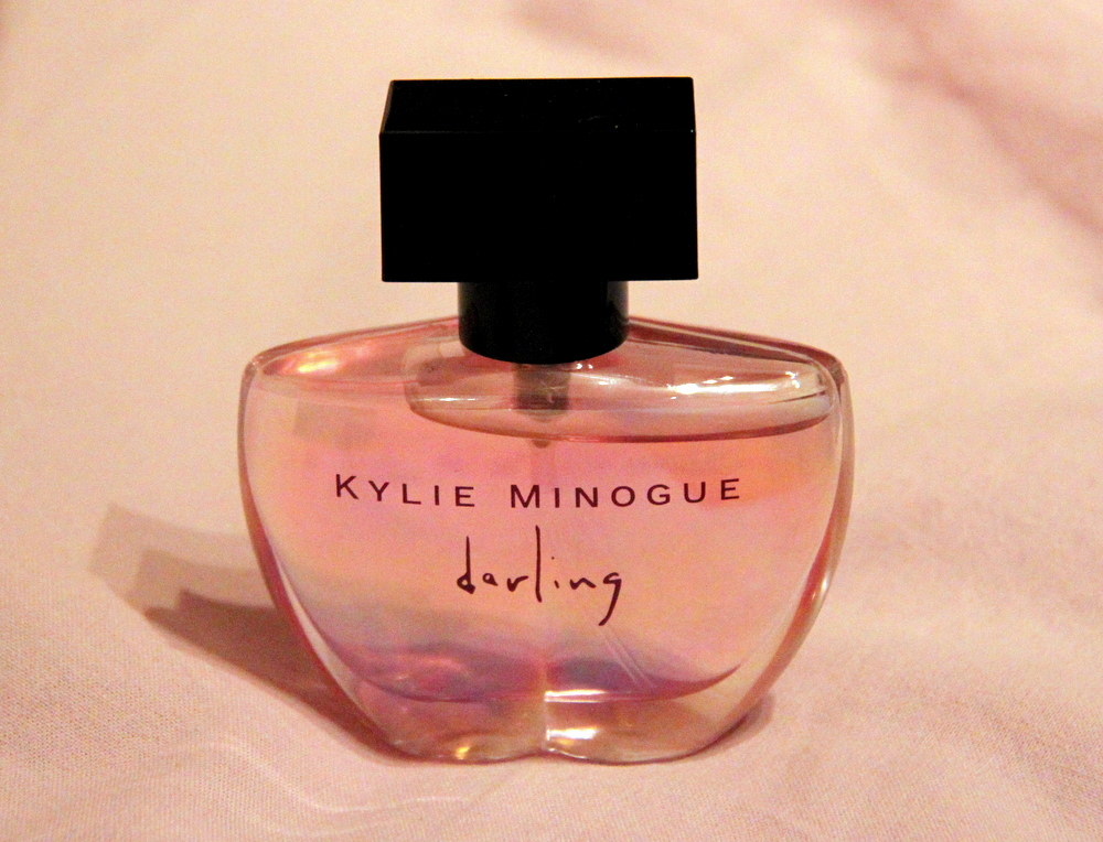 A 30 ml bottle of "Kylie Minogue Darling" -perfume.